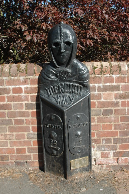 Mercian Way marker There is another one at Coalport - no doubt there are several of them, it's just that I've only found the two.